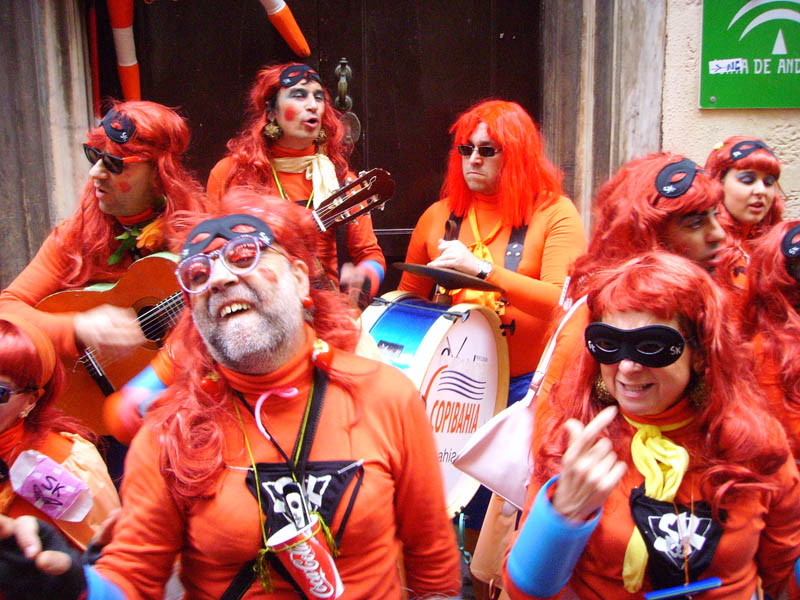 Chirigota at the Carnival of Cádiz, Spain. Many of the people in this image are men, in drag.